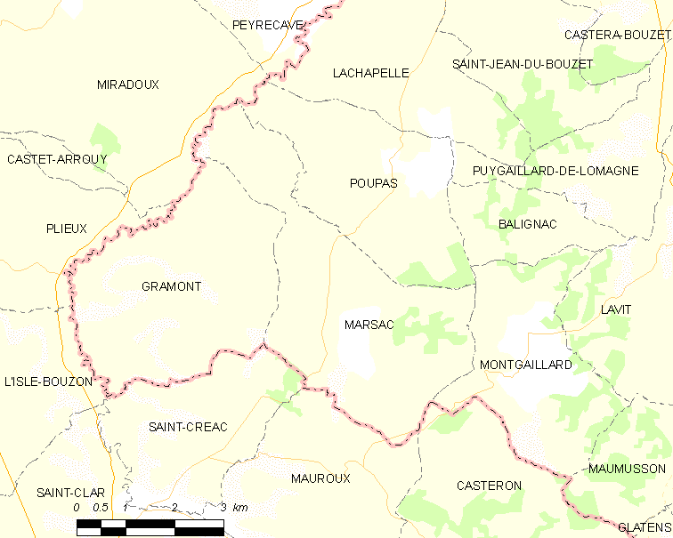 Map of French municipality Marsac